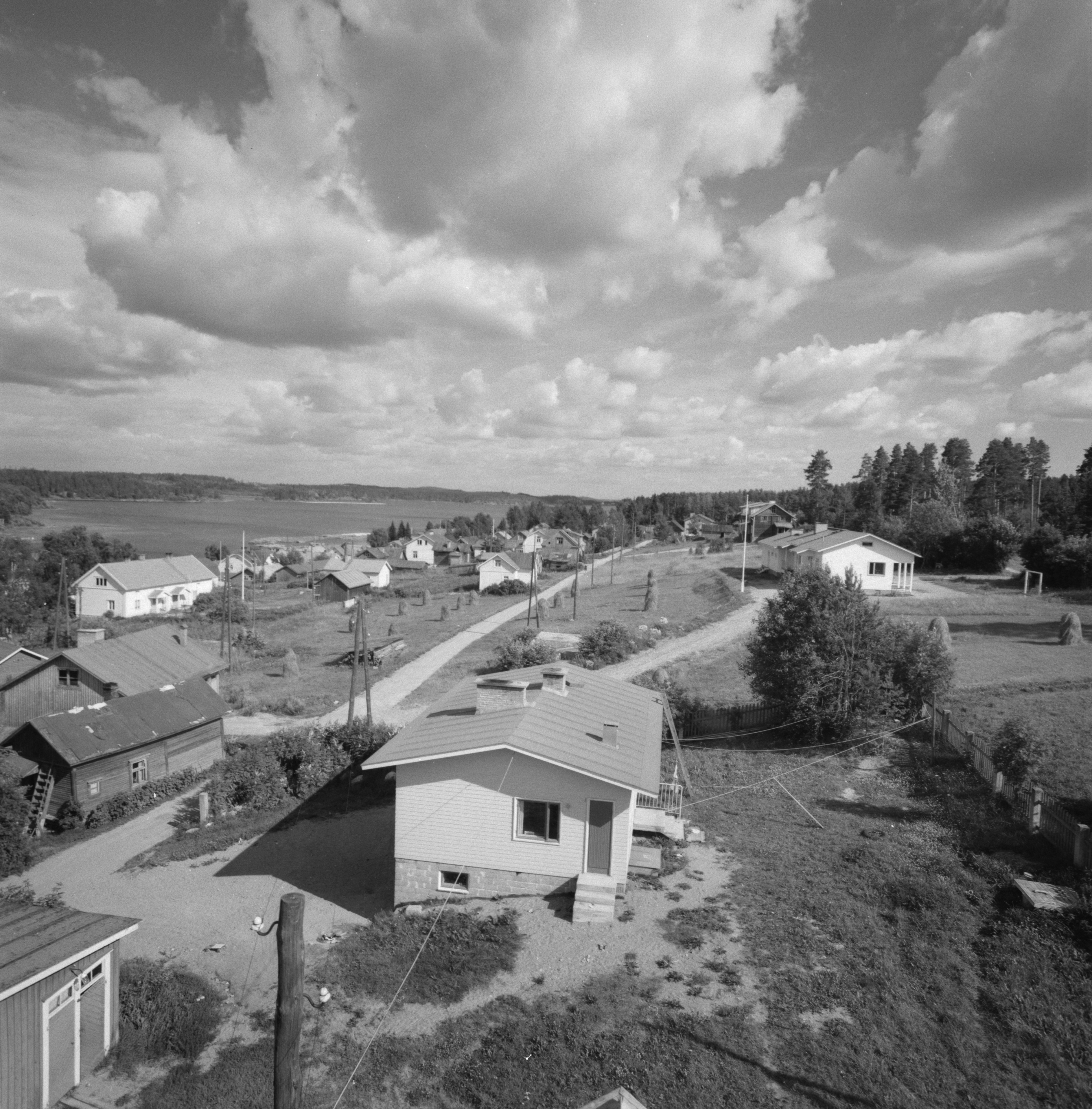 The municipality of Sulkava pictured in 1961